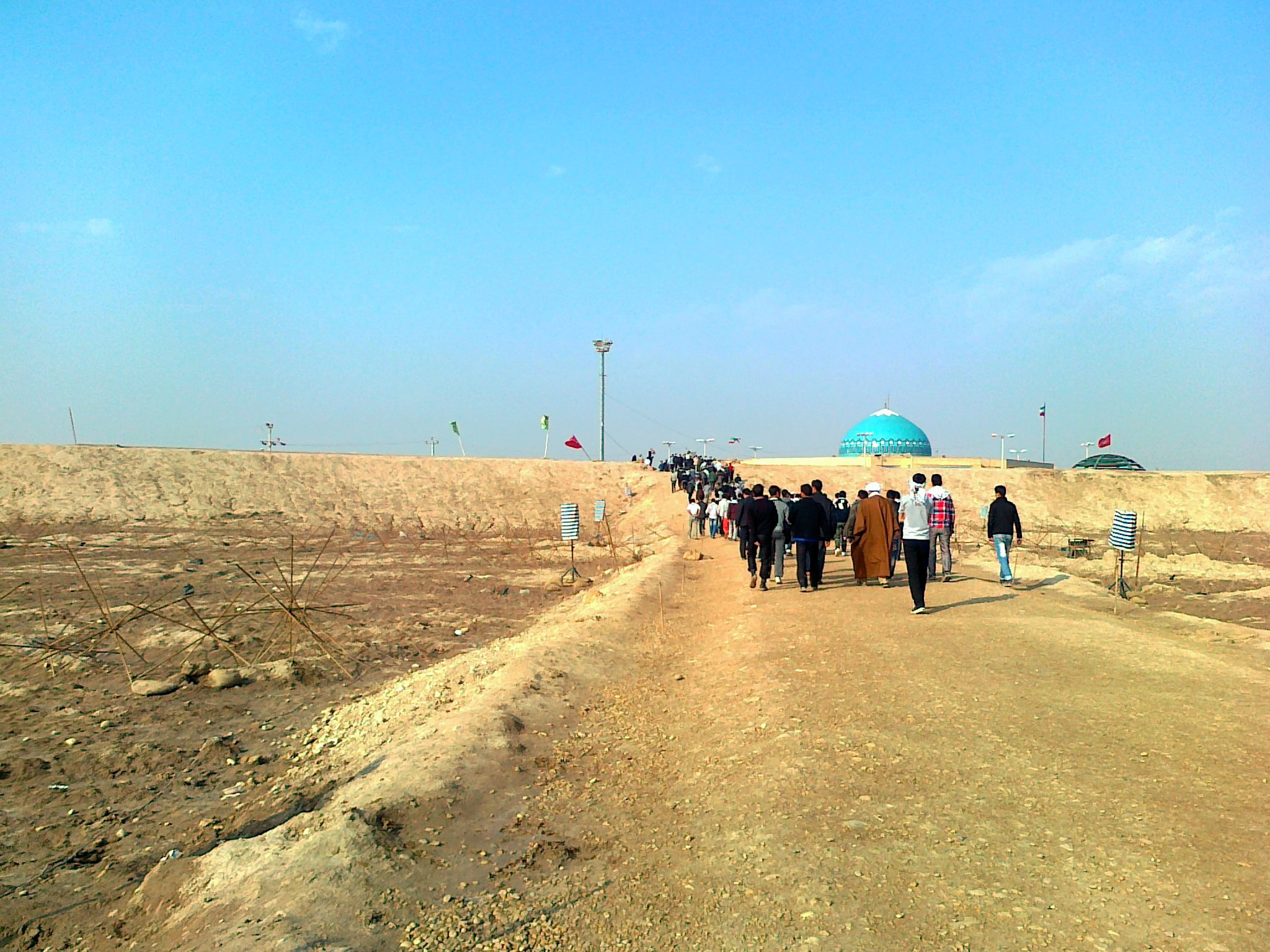 Rahian e Noor (passengers to light) - Passengers to Iran Iraq front